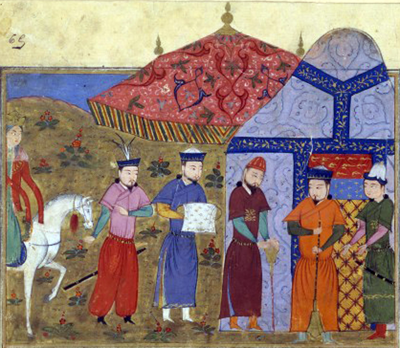 Genghis Khan and chinese envoys. Jami' al-tawarikh, Rashid al-Din.